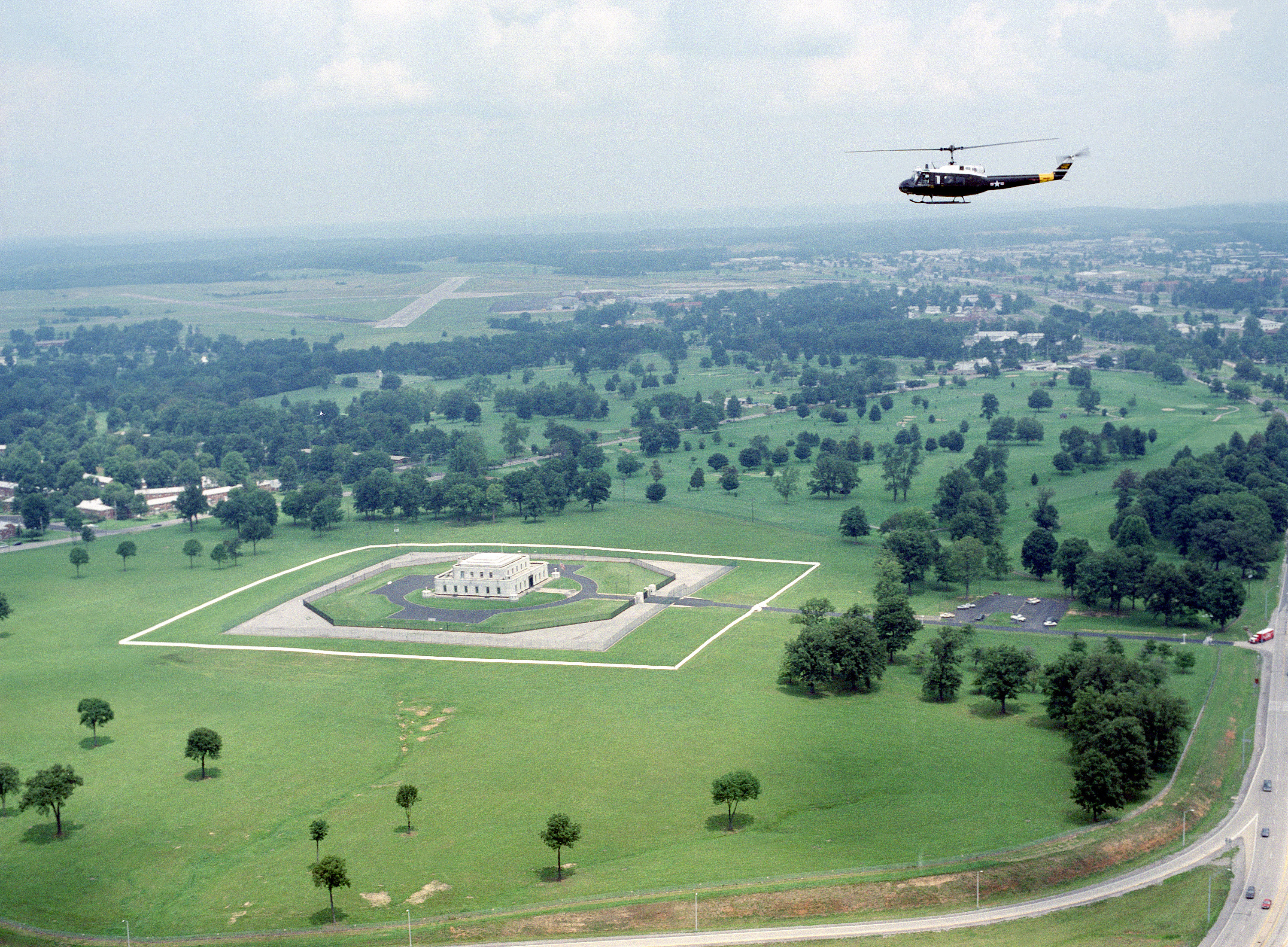 An UH-1 Iroquois helicopter flies over the US Gold Bullion Depositiory.